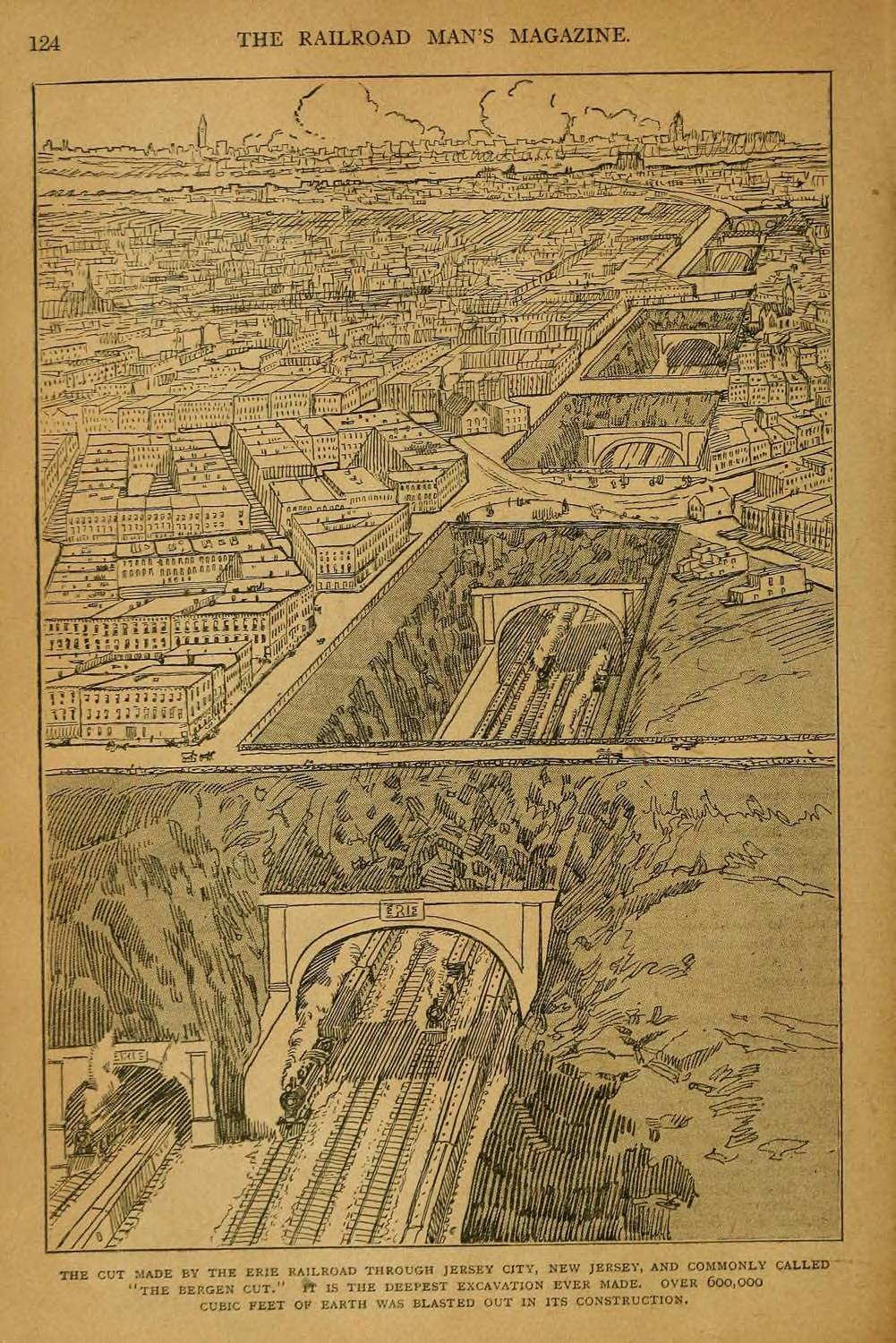 "The cut made by the Erie Railroad through Jersey City, New Jersey, and commonly called "The Bergen Cut." It is the deepest excavation ever made. Over 600,000 cubic feet of earth was blasted out in its constructions."